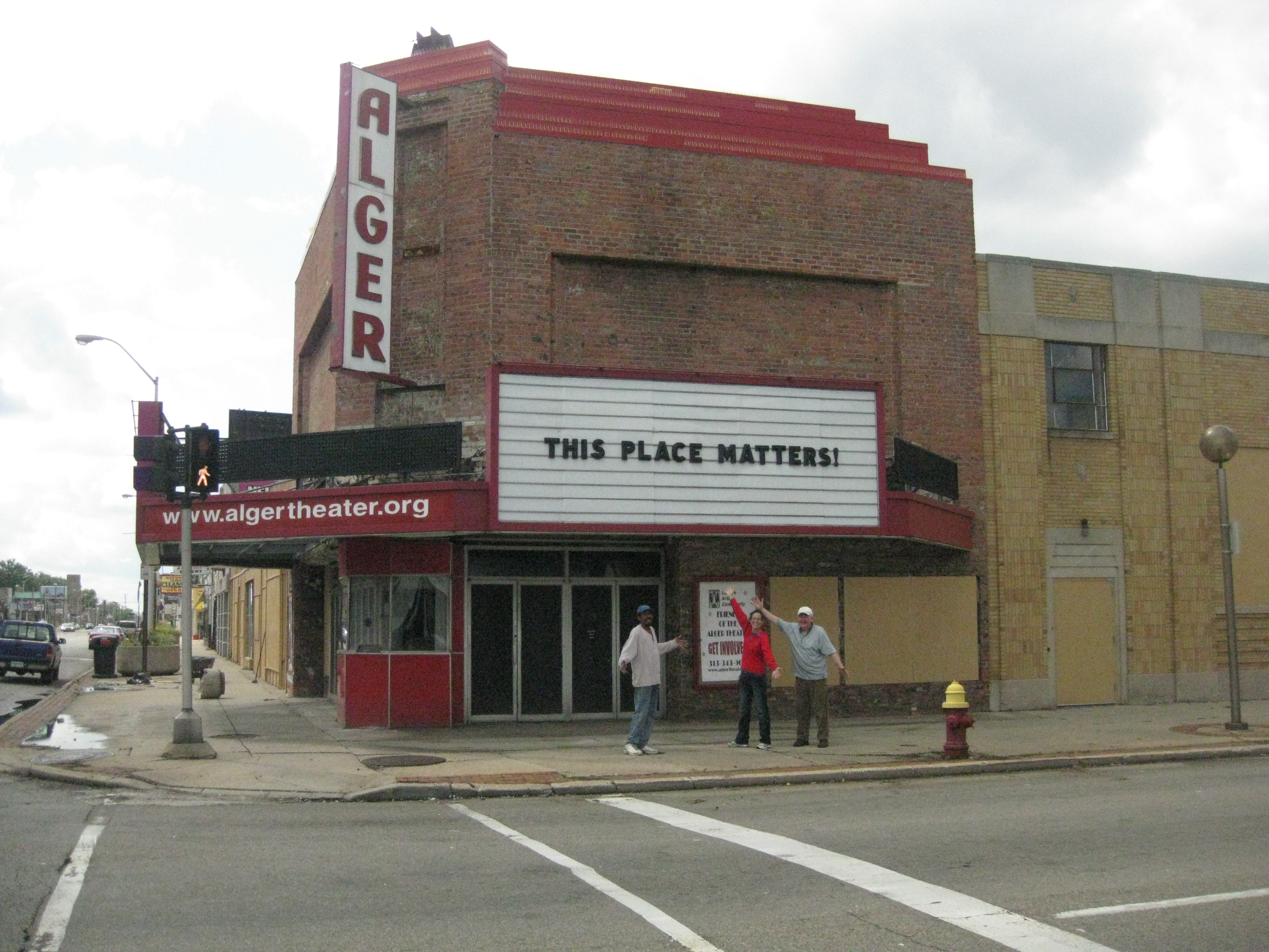 Photo of Alger Theater in Detroit for the National Trust "This Place Matters" campaign